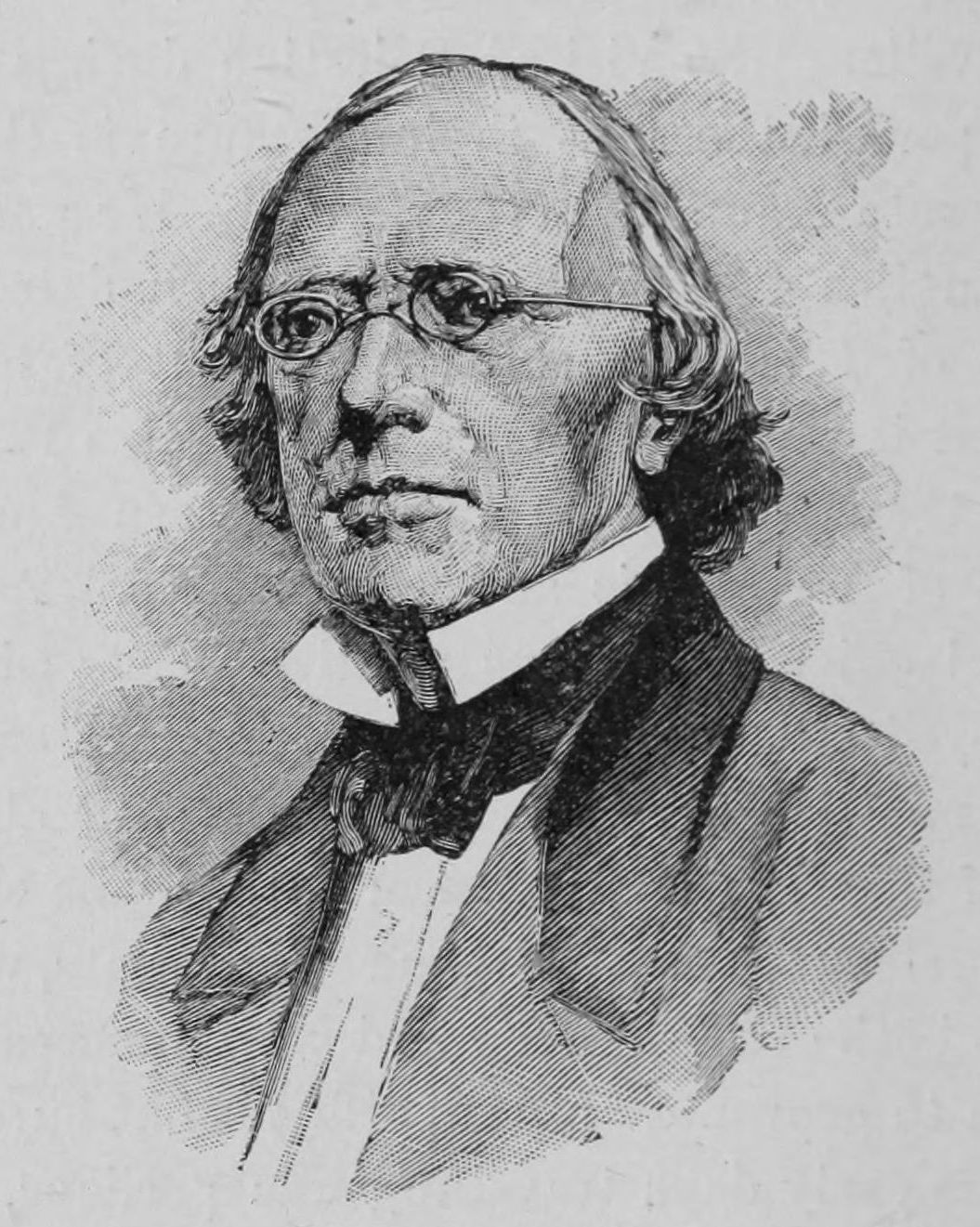 Portrait of Edward Robinson (1794 - 1863)